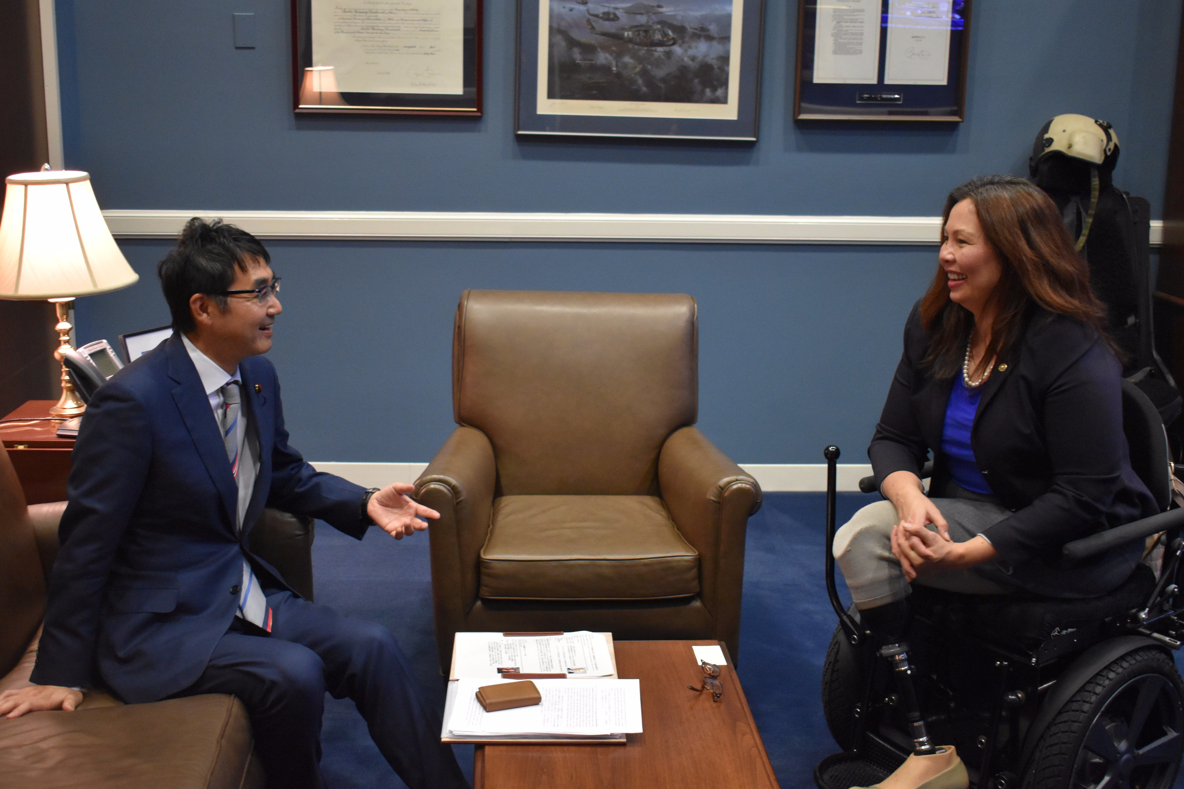 Katsuyuki Kawai, Special Advisor for Foreign Affairs to President Shinzo Abe & member of the Japanese House of Representatives, was in D.C. yesterday—we discussed US-Japan relations & foreign policy issues like North Korea